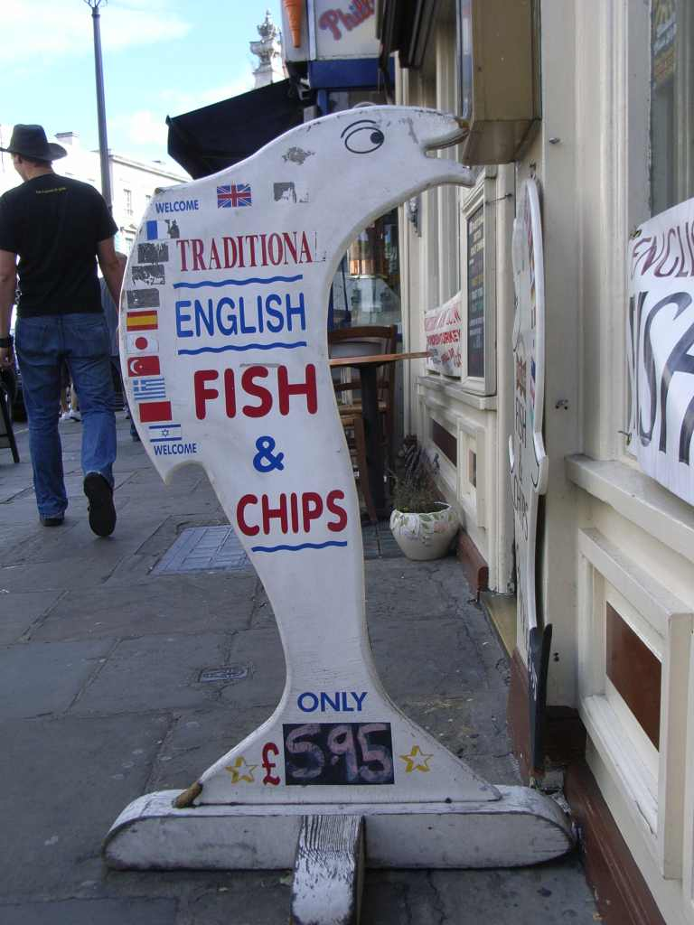 Fish'n'Chips Display, Greenwich